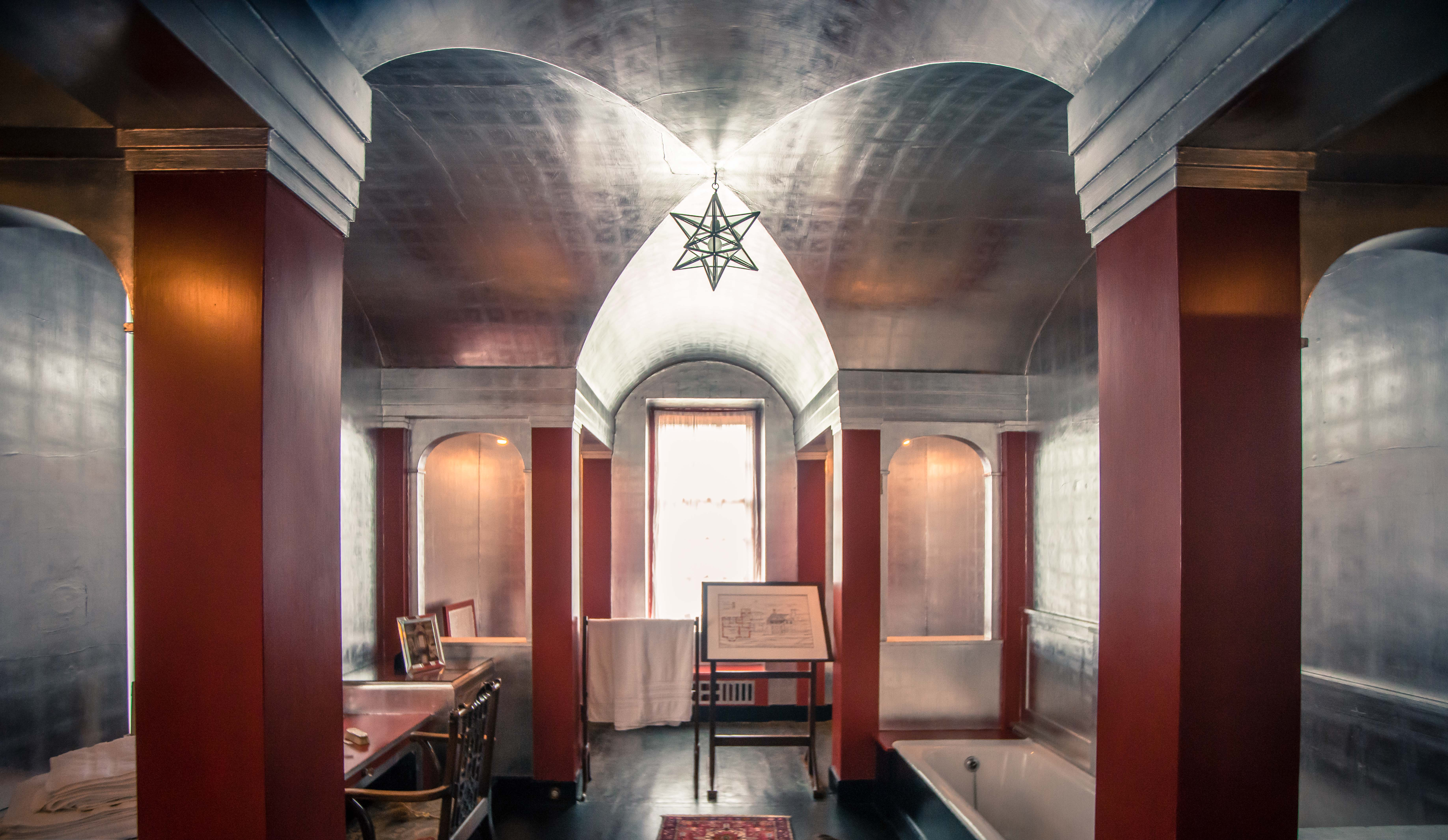 Art Deco Bathroom at Upton House, Warwickshire